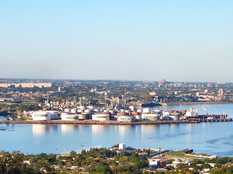 The oil refinery of ANCAP in Capurro, Montevideo, Uruguay, as seen from the Cerro de Montevideo.